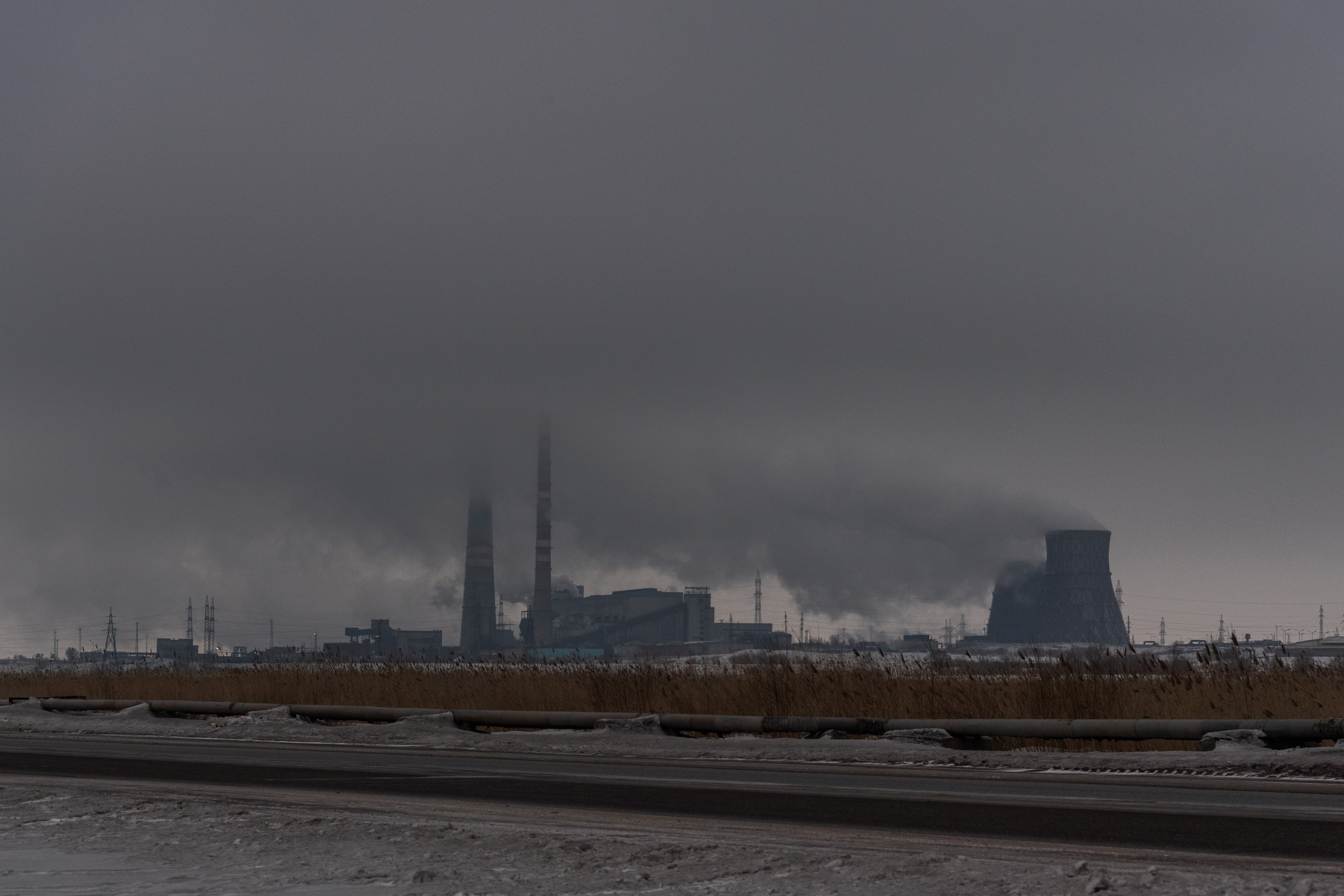 Karaganda 3 CHP station, Kazakhstan